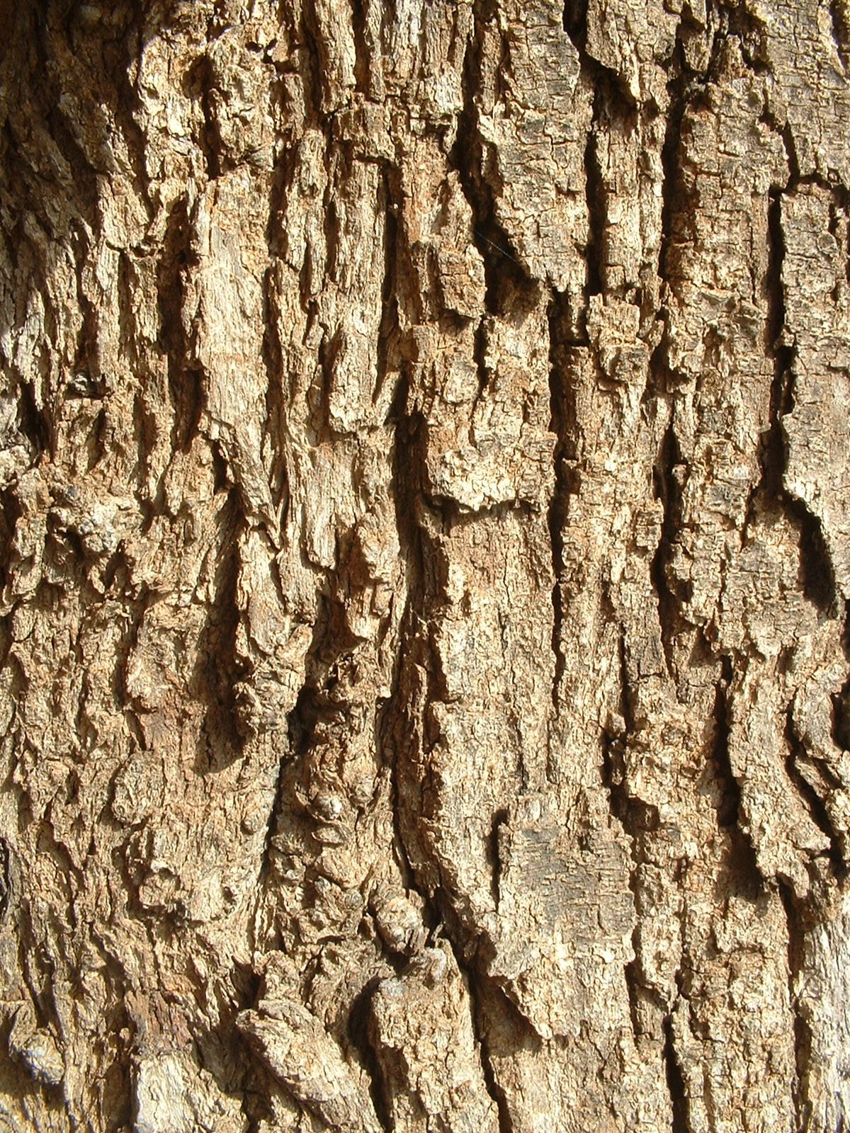 Bark (on trunk) of Casuarina cunninghamiana. Photographed in Karkur, Israel, by me, Dec. 30, 2005. Fuji FinePix 2650 camera.